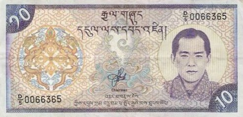 Banknote from Bhutan after a travel.